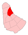 Map of Barbados showing Saint Andrew parish.